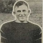 Vanderbilt halfback Grailey Berryhill circa 1919